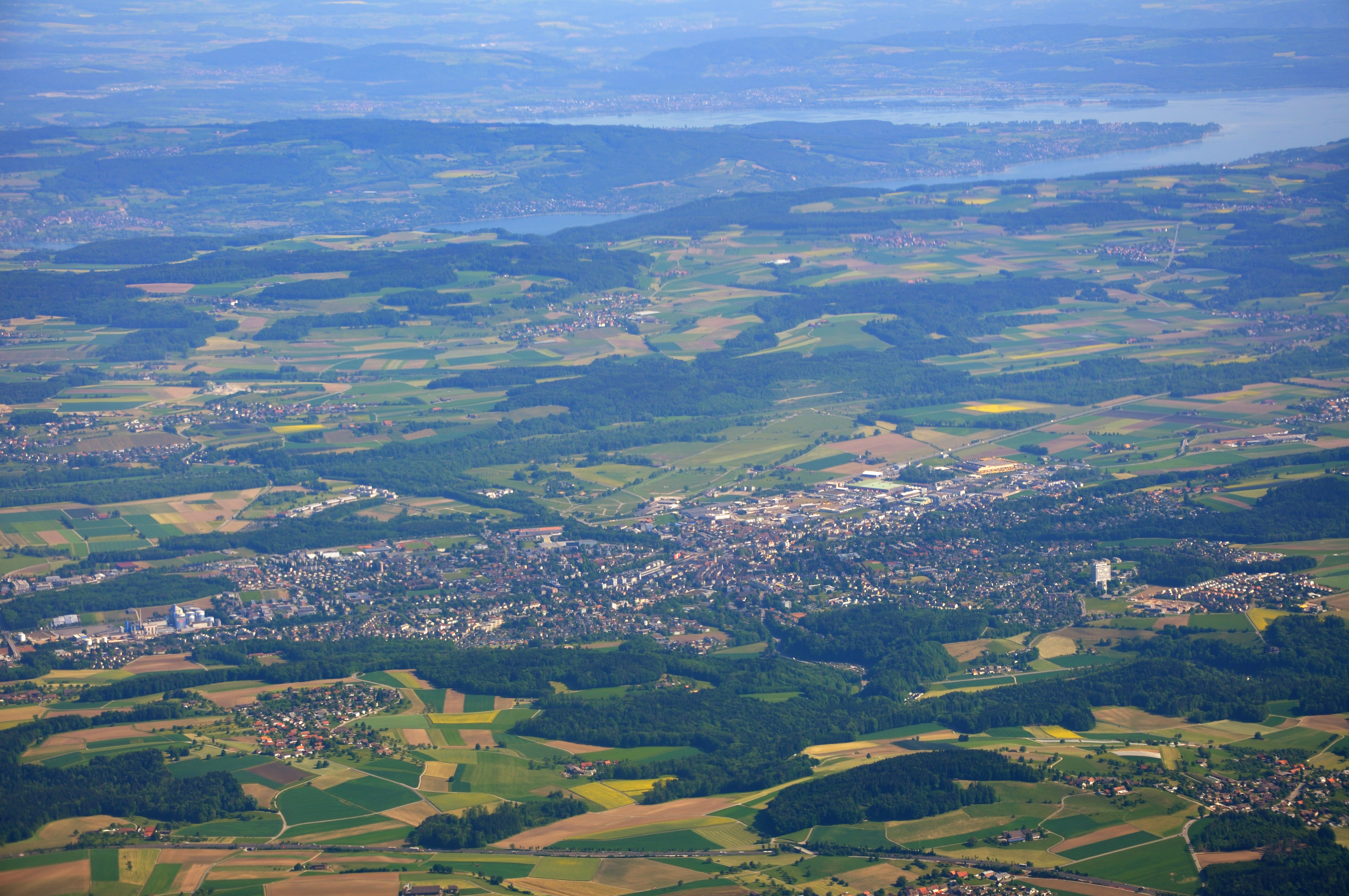 Switzerland, Thurgau, aerial view of Frauenfeld